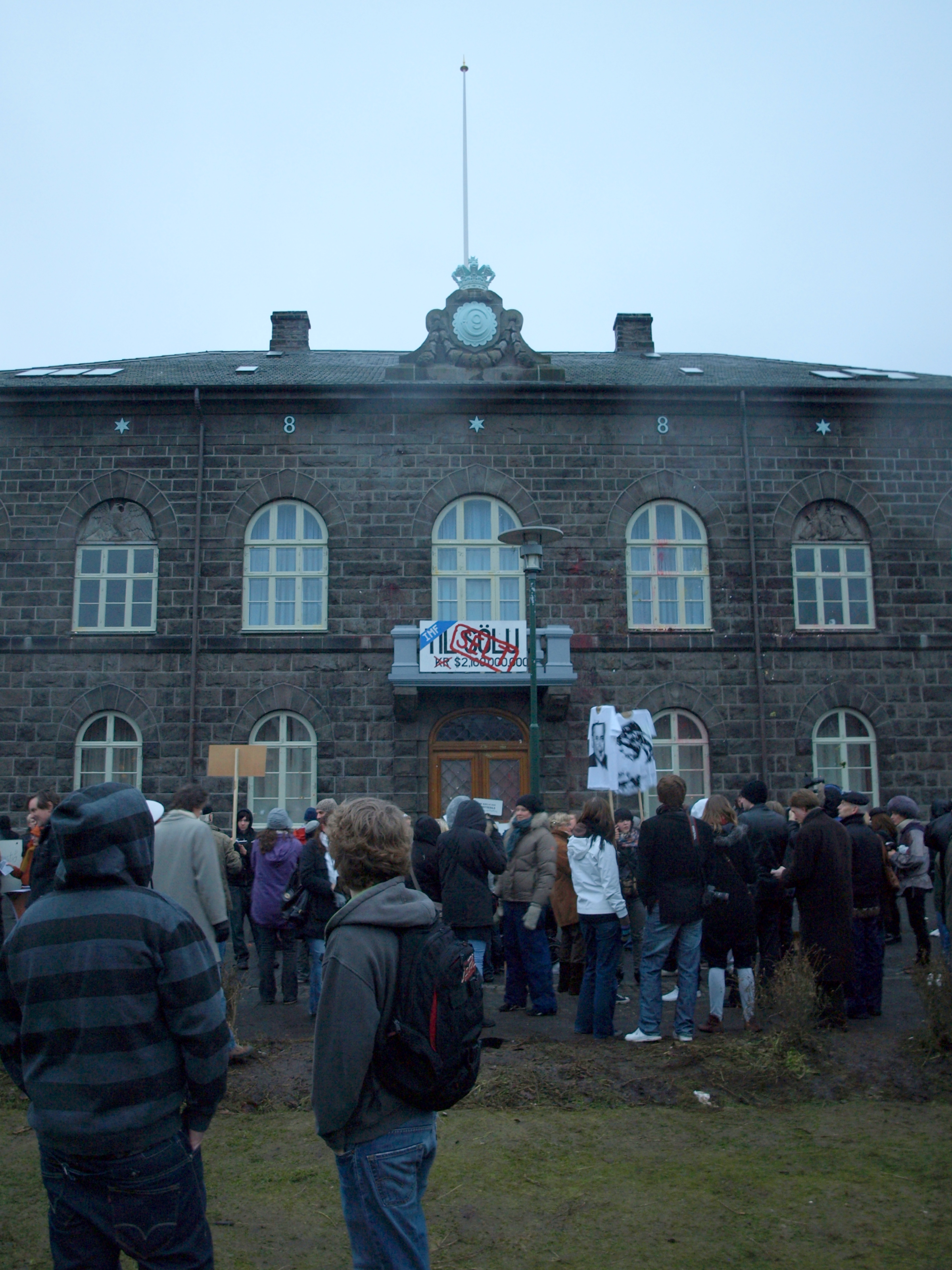 Alþingi, the parliamentary house of Iceland, in Reykjavík. On it's balcony mounted a sign displaying "For sale kr. 2,100.000.000" and "IMF Sold $". This is after mounting protests because of the economic crisis in Iceland in late 2008.